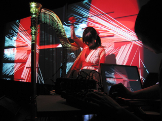 The Japanese harpist Emi Meada during a concert.